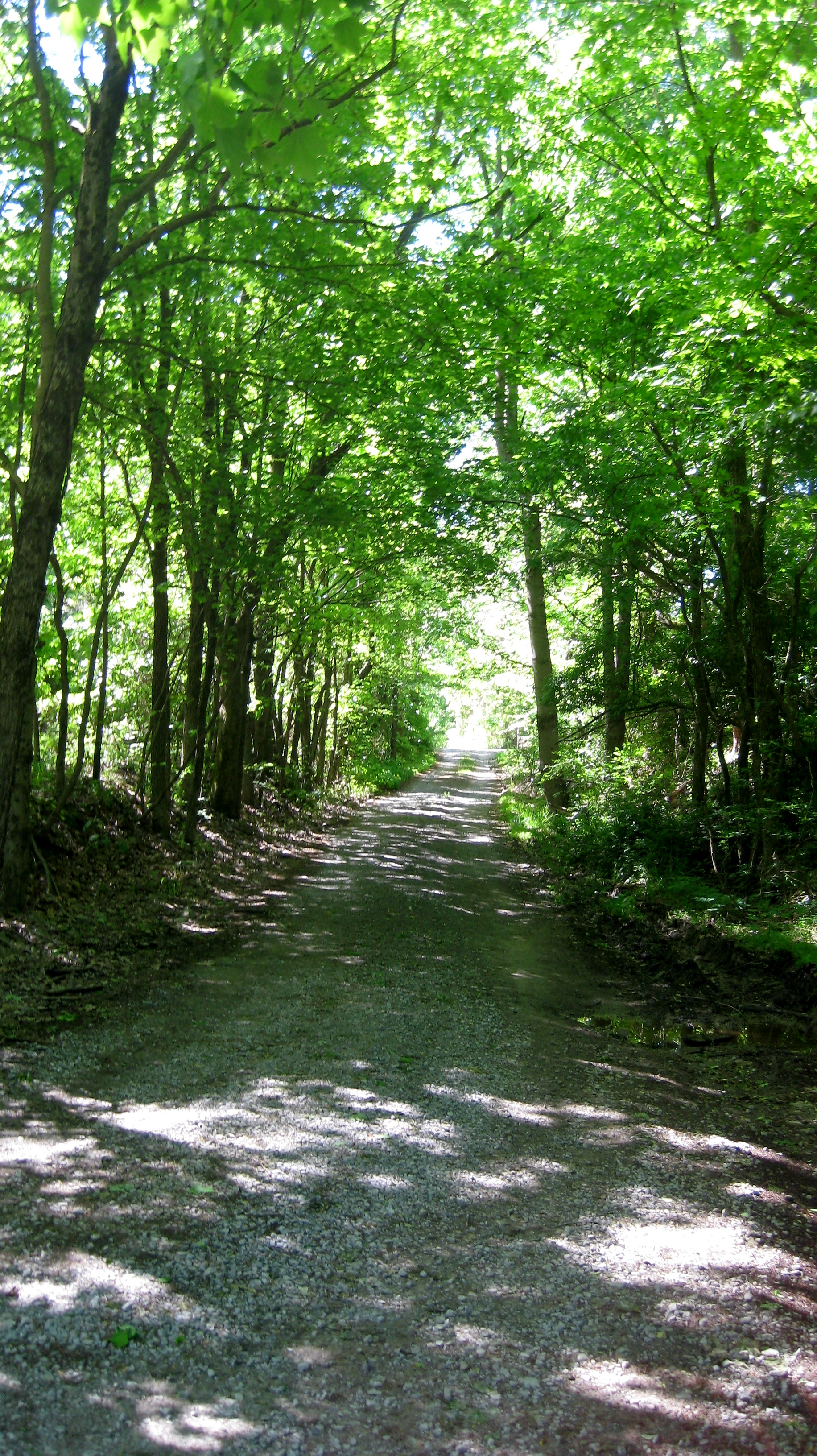 Panther Den road is narrow and it is gravel, not paved.